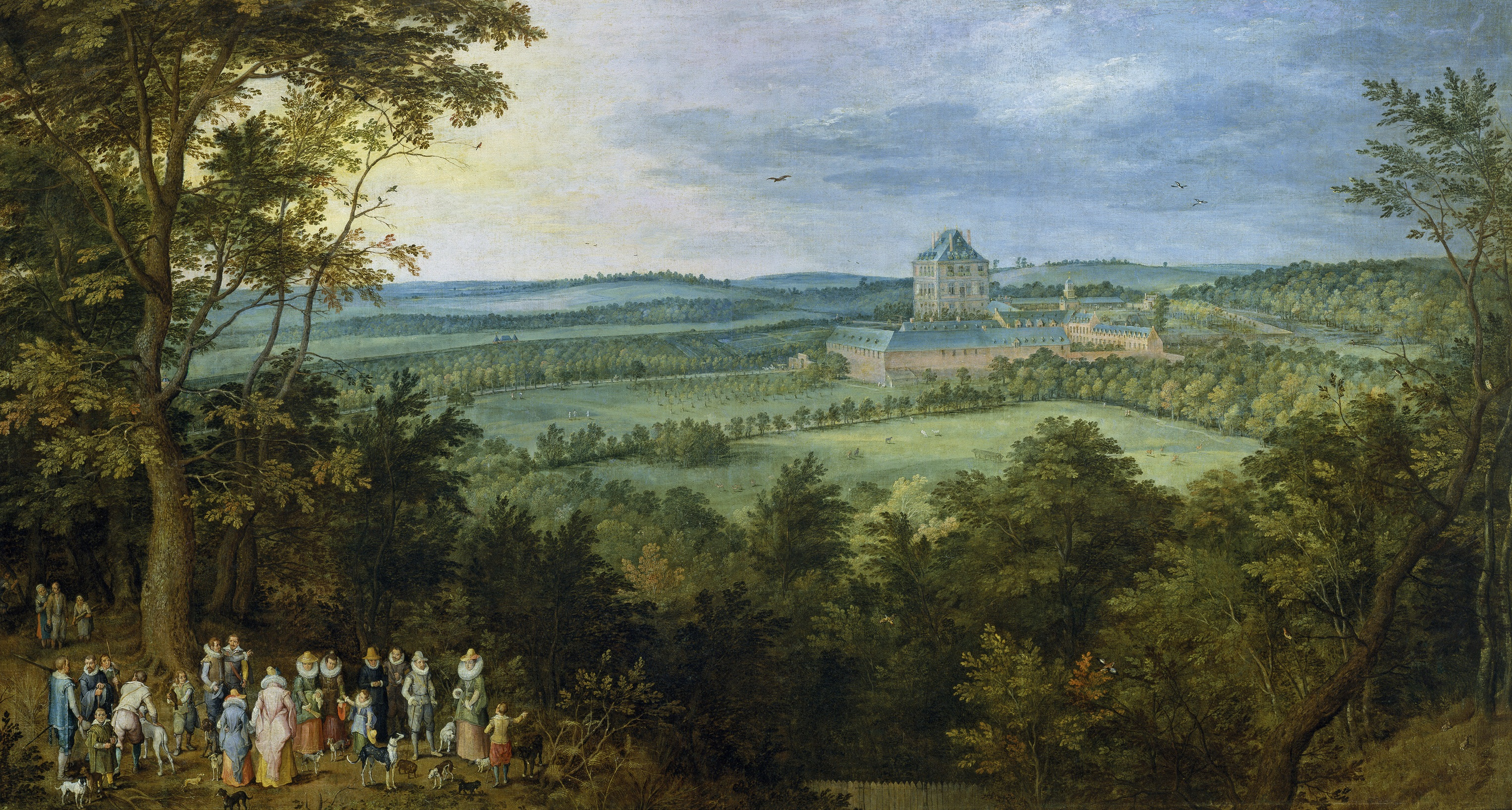 Landscape with the Chateau de Mariemont